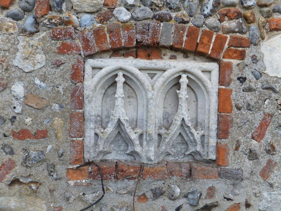 One of two stone features, possibly ecclesiastical, in the wall of Pear Tree Cottage.